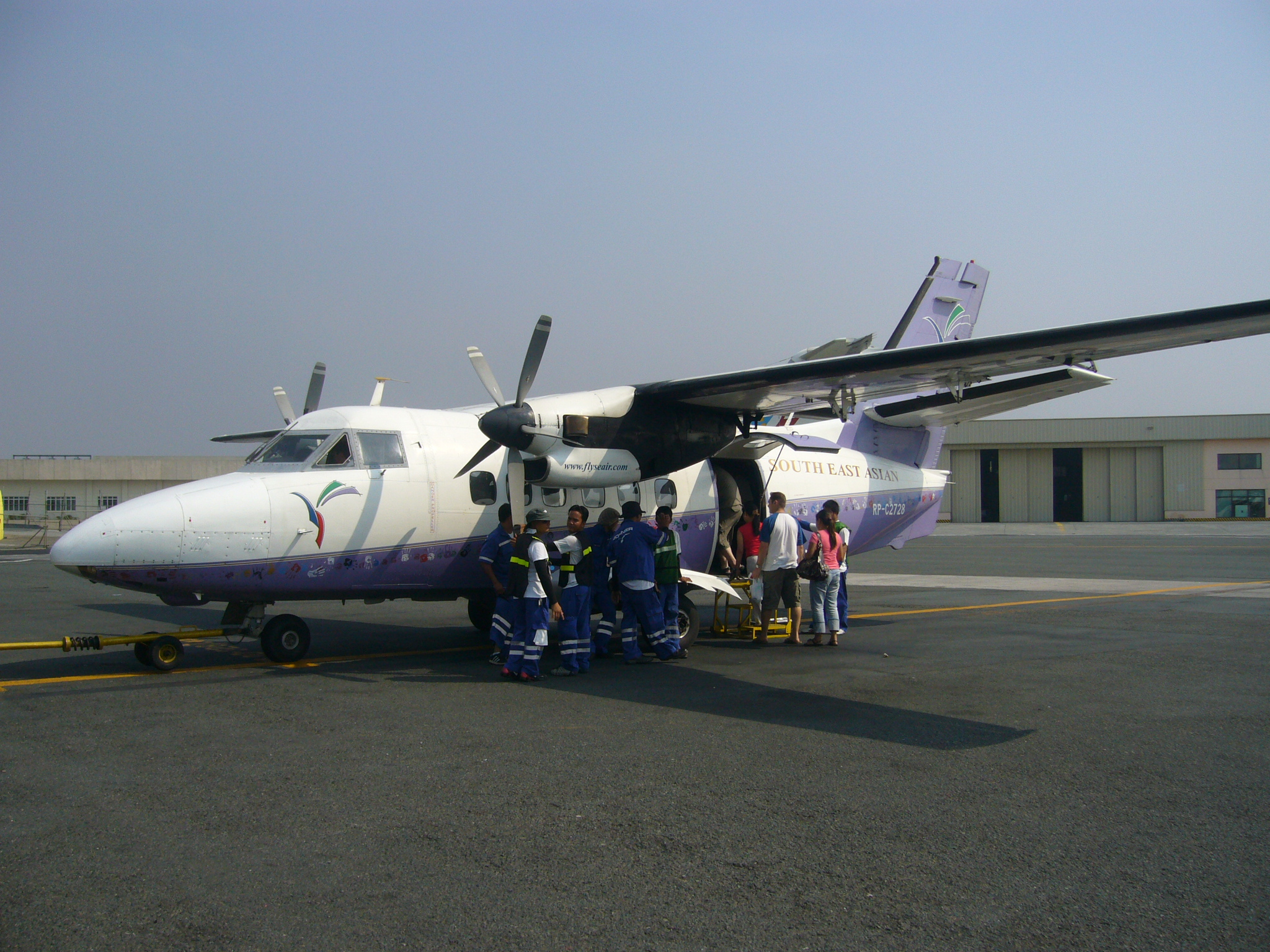 This is a Let L-410UVP-E (RP-C2728) operated by SEAir. It is being boarded in the Manila Domestic Airport. The photo was taken in April, 2007.